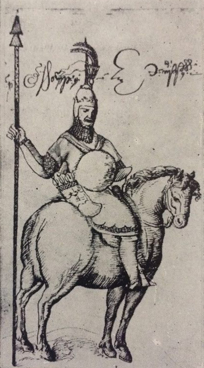 Mamia II Gurieli, Prince of Guria (Mama the prince of Guria and his armour; Killed by his son Simon). A sketch by the Catholic missionaire Don Cristoforo De Castelli